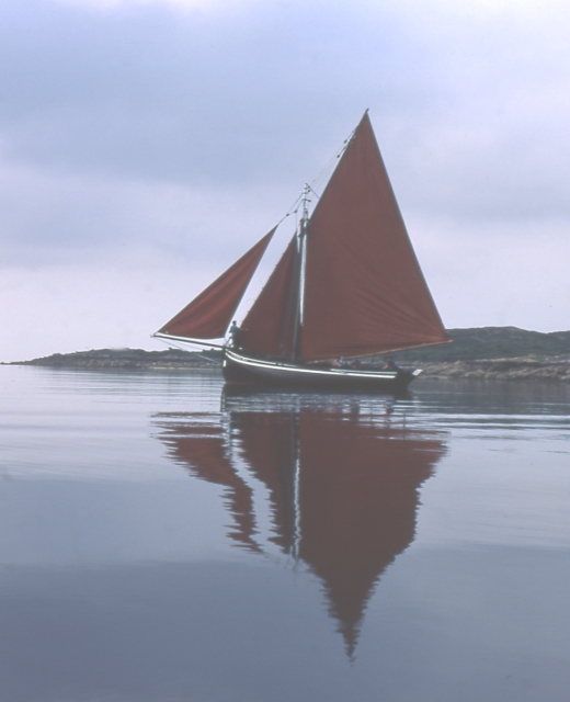 Galway Hooker. Maybe not a geograph, but this traditional sailing vessel is called a Galway Hooker. It was one of several making their way to a festival in Galway.